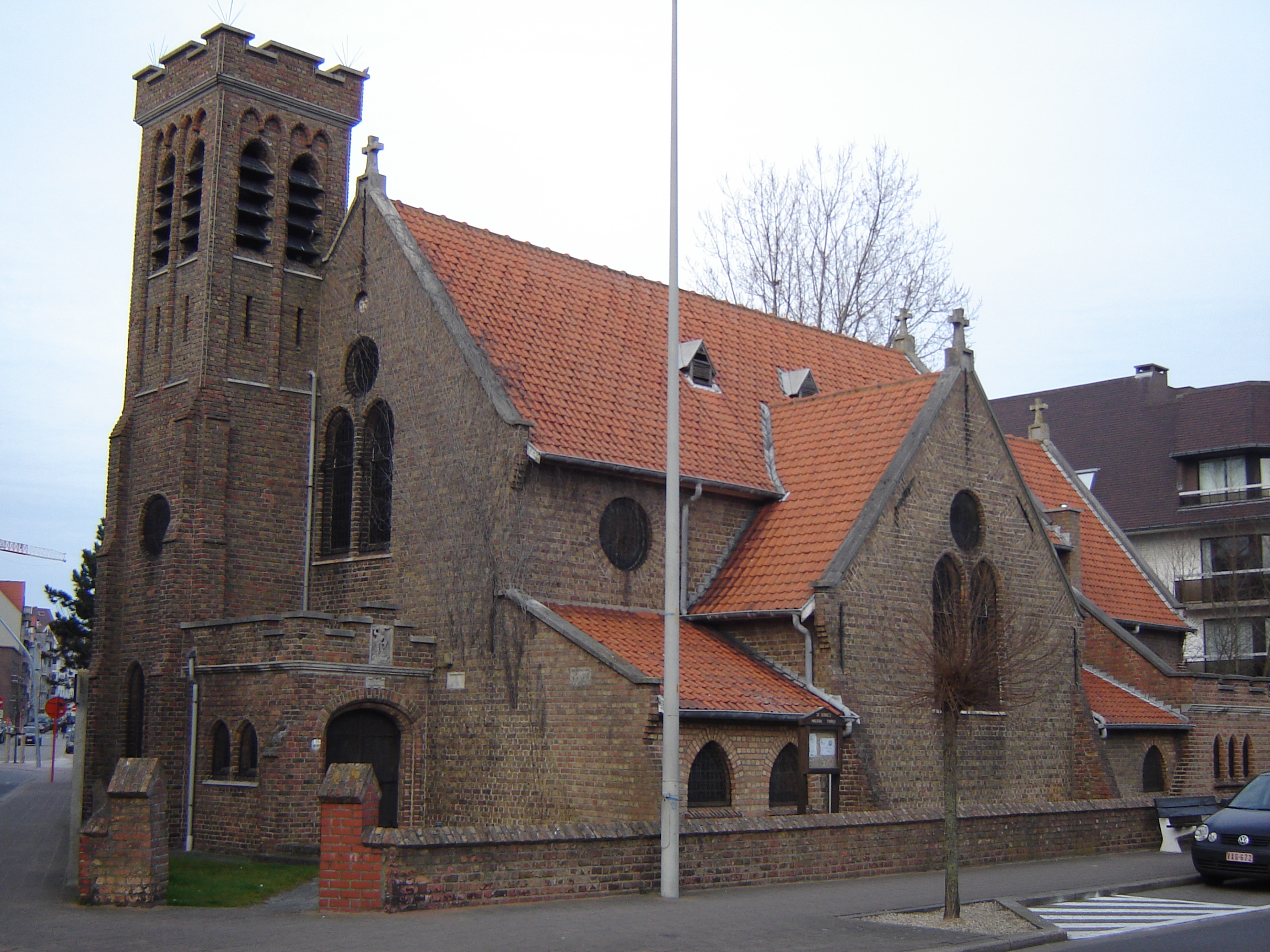 St. George's Anglican Church in Knokke. Knokke, Knokke-Heist, West Flanders, Belgium